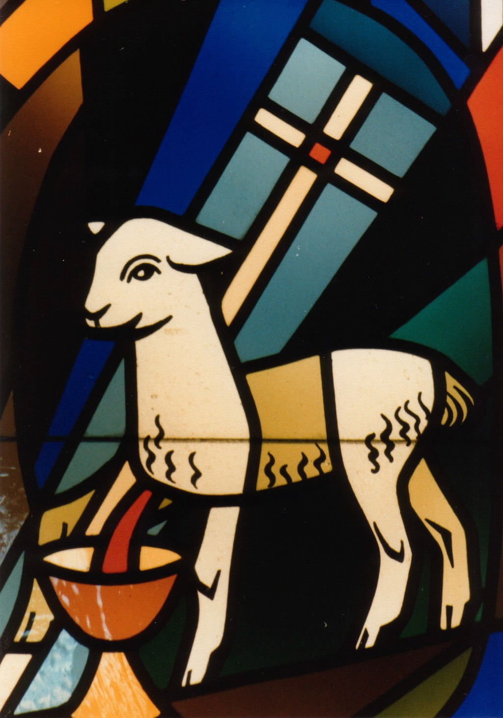 Stained glass showing Lamb of God with vexillum and chalice, from chapel that used to be part of a convent (now a Baptist church and school complex) in El Cajon, California